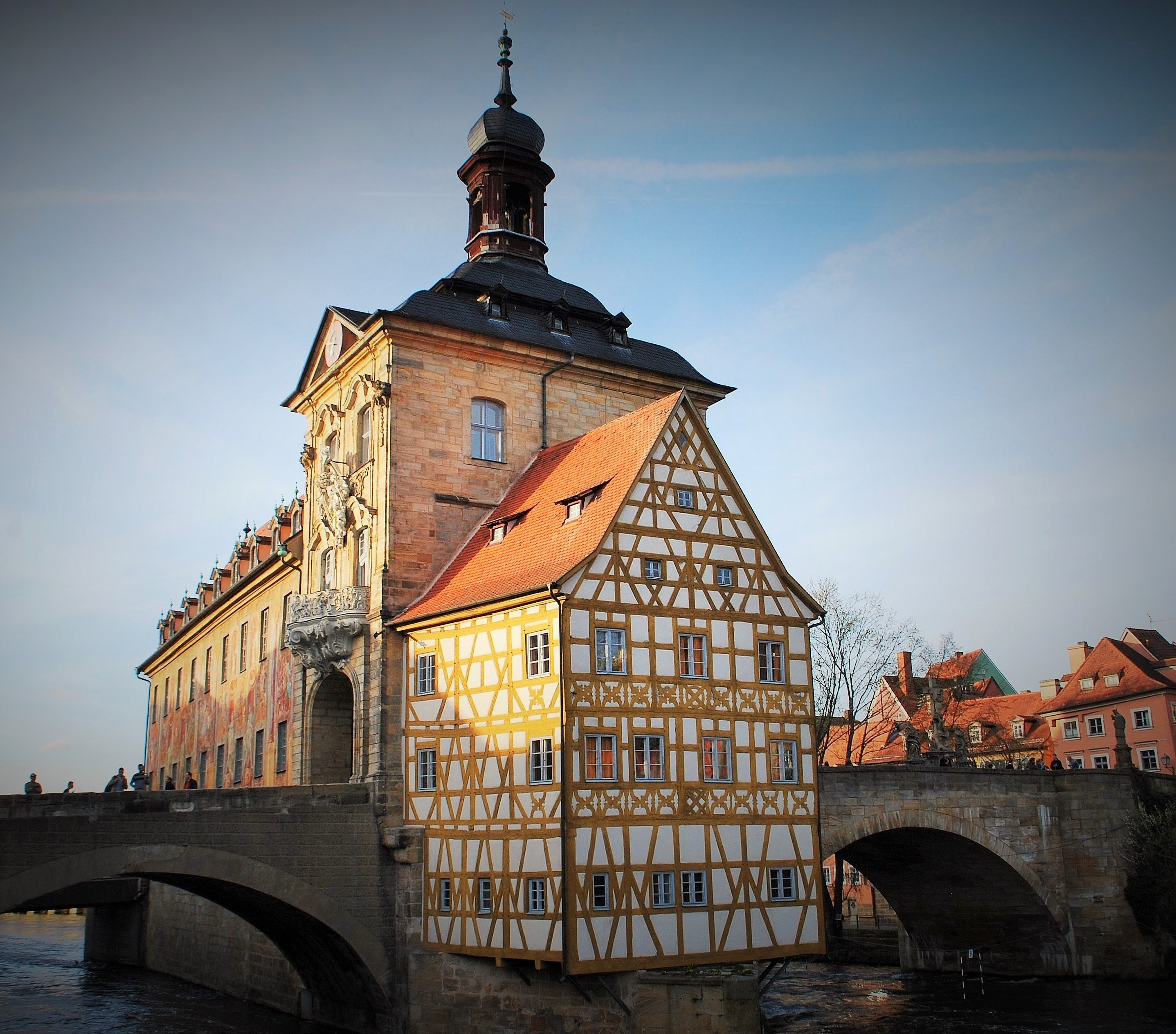 Old city hall (Altes Rathaus) in Bamberg